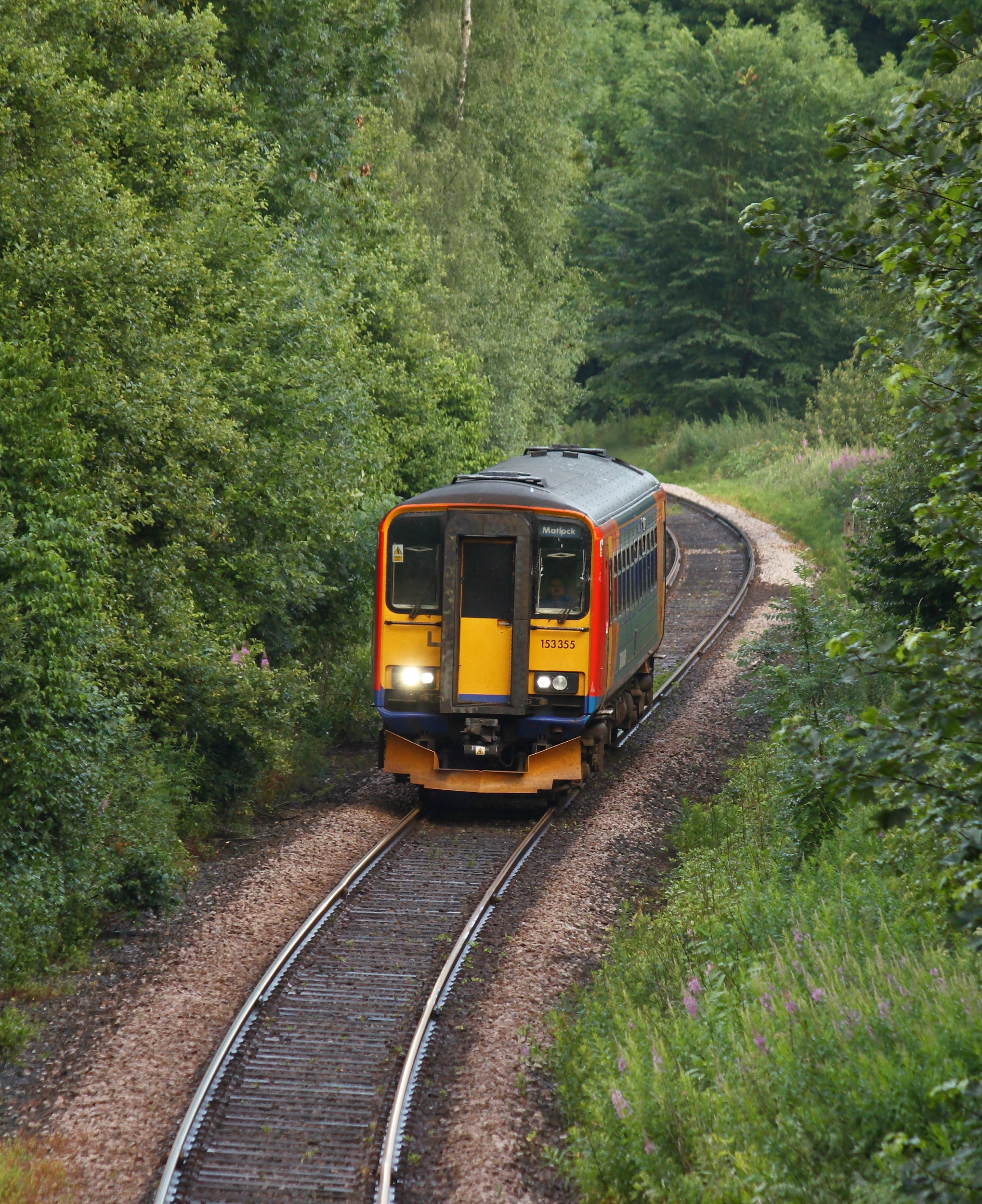 153355 passes Hollins Wood with a Derby - Matlock service